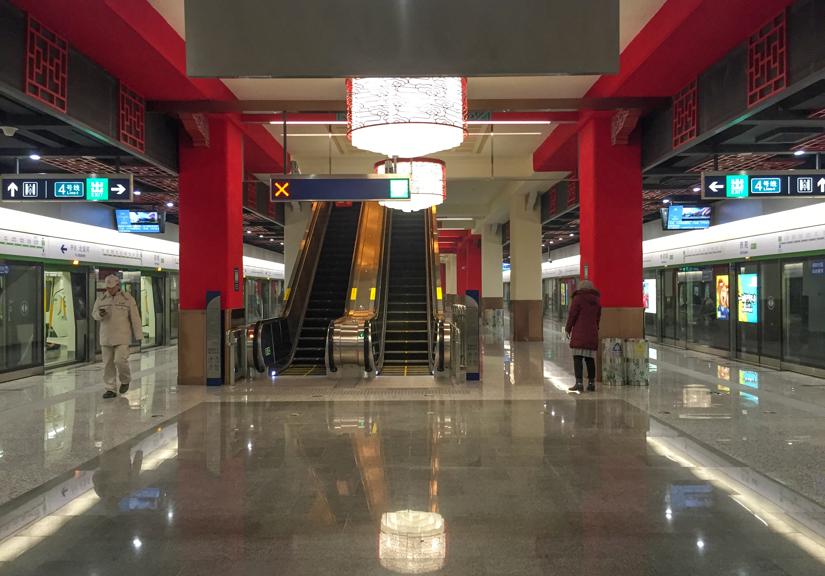 The only L16 station with red pillars. Only the northern platform is used.